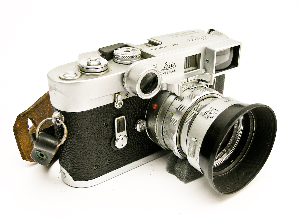 Leica M4 with Summicron 50mm f/2 and gogles for proxiphotography. I bought these from a neighbor. They were her husband's. He was a freelance photographer for some Dallas newspapers and passed away in 96. I promised her they were going to a good home and would get plenty of use again. I can't even begin to express how excited I am to be a Leica owner.